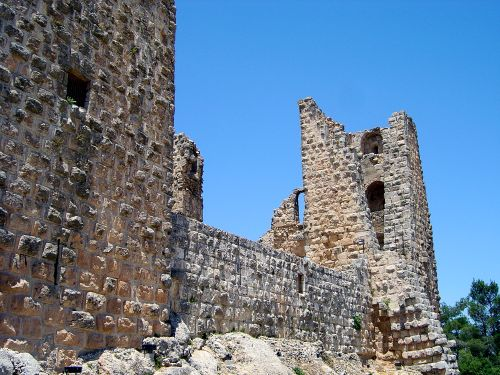 Ajlun castle (Jordan) in 2004